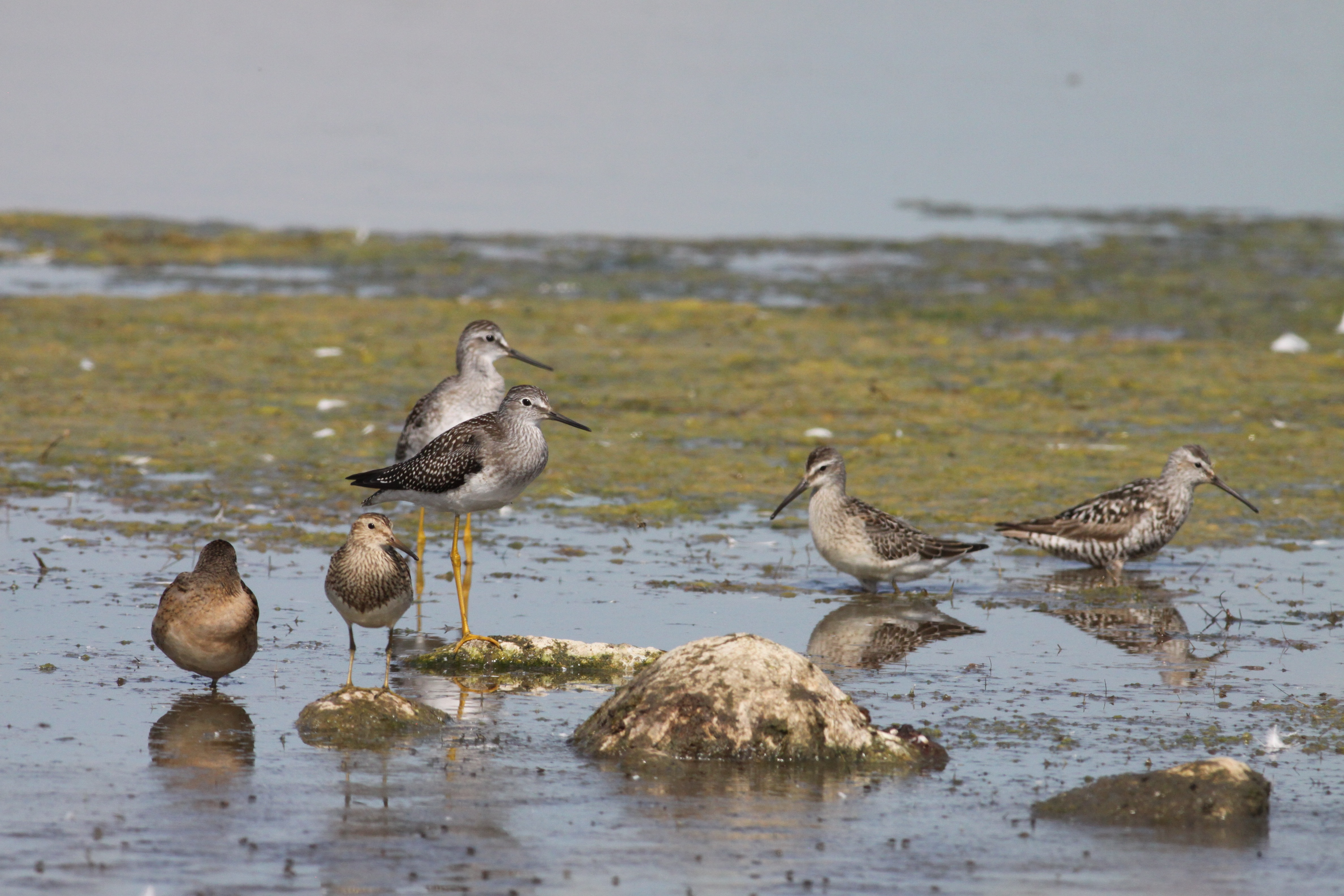 Dowitcher sp., Pectoral Sandpiper, Lesser Yellowlegs and Stilt Sandpipers. Sandy Lake, Two Hills County, Alberta, Canada